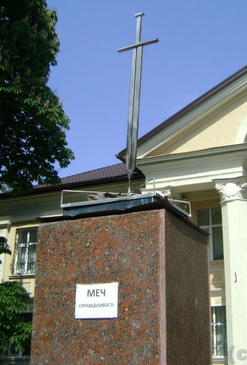 Monument "Sword of Justice" in Brovary, Kiev Oblast, Ukraine. Installed by activists of local "Lustration Committee". Monument was open on May 19, 2004 on the pedestal of demolished during Euromaidan monument of Vladimir Lenin. On July 7, 2014 it was demolished by official municipal service of Brovary. The monument symbolized lustration and the fight against corruption.